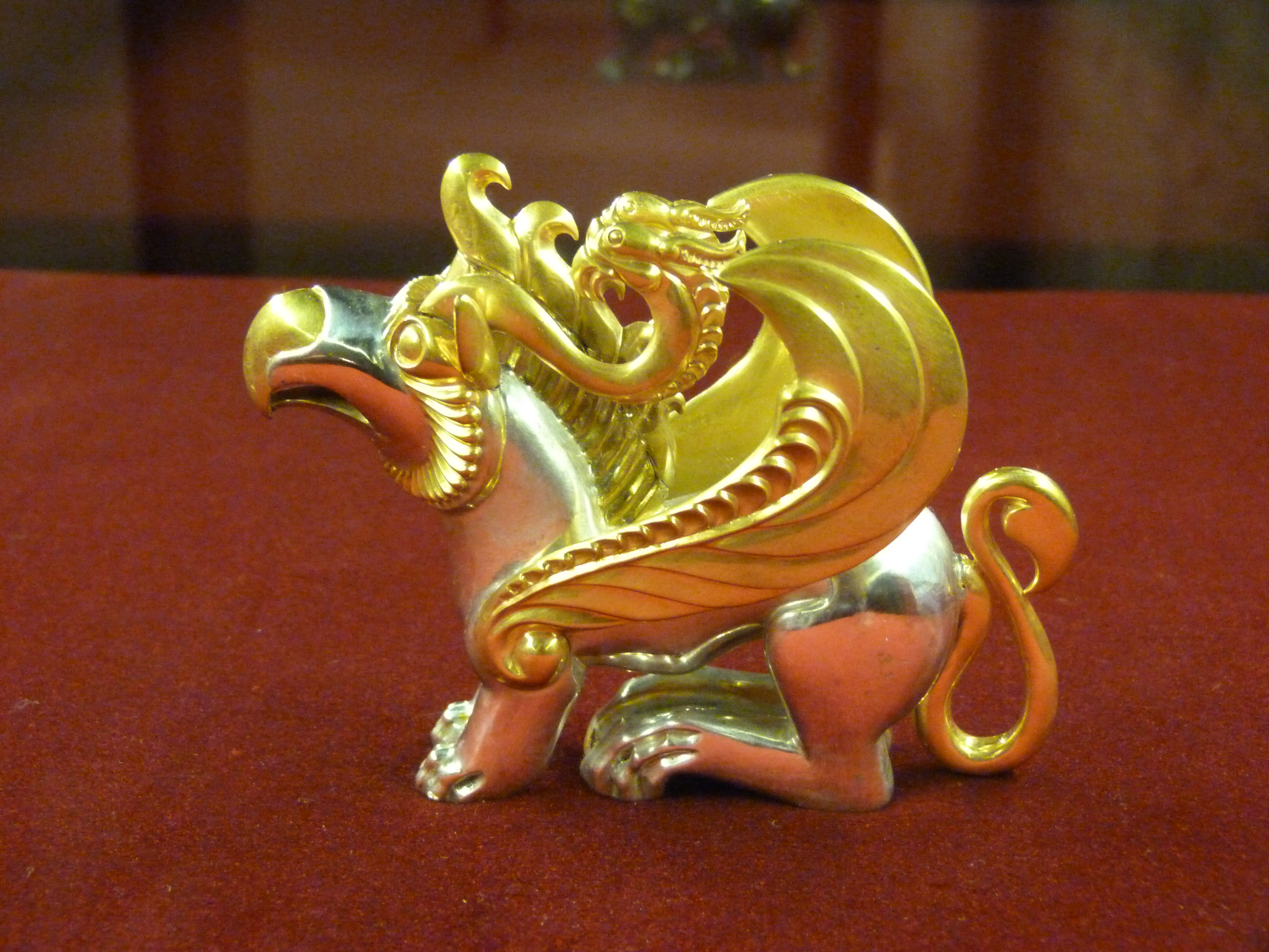 Empire of the Sun. Scytians ! Great, honorable men ! Remember the beginning of your way ! Live on the 13th of November, 2012, Budapest, VAM Design Center. Published under Creative Commons in the Metapolisz DVD line. All of the photos and vids in the Metapolisz DVD line are under Creative Commons and can be used even for commercial - for profit - purposes. Recommended citation: Derzsi Elekes Andor: Metapolisz DVD line Sources: Сенсационной называют свою находку археологи, обнаружившие в Карагандинской области «золотого человека» Sun emperor File:Sun_emperor.JPG Még mindig tagadnunk kell? Szkíta „aranyembert” találtak a kazah régészek A szkíta Napherceg Szkíta kincsekből nyílik egyedülálló kiállítás Budapesten: Badinyi-Jós Ferenc :a tatárlakai korong szövegének megfejtése: „Oltalmazónk! Minden titok dicső Nagyasszonya! Vigyázó két szemed óvjon, Napatyánk fényében!” Szathmáry megfejtése: „Egyetlen, magasztos Teljességünk leáldozóban, de Fény atyánk arca felemelkedik, ismét felragyog, s betölti dicsőségét!”